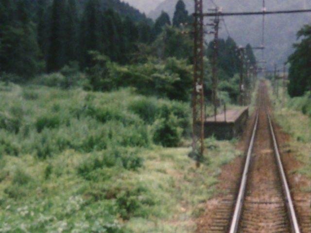 Toyama Chihou Tetsudou Kamiyokoe Station platform